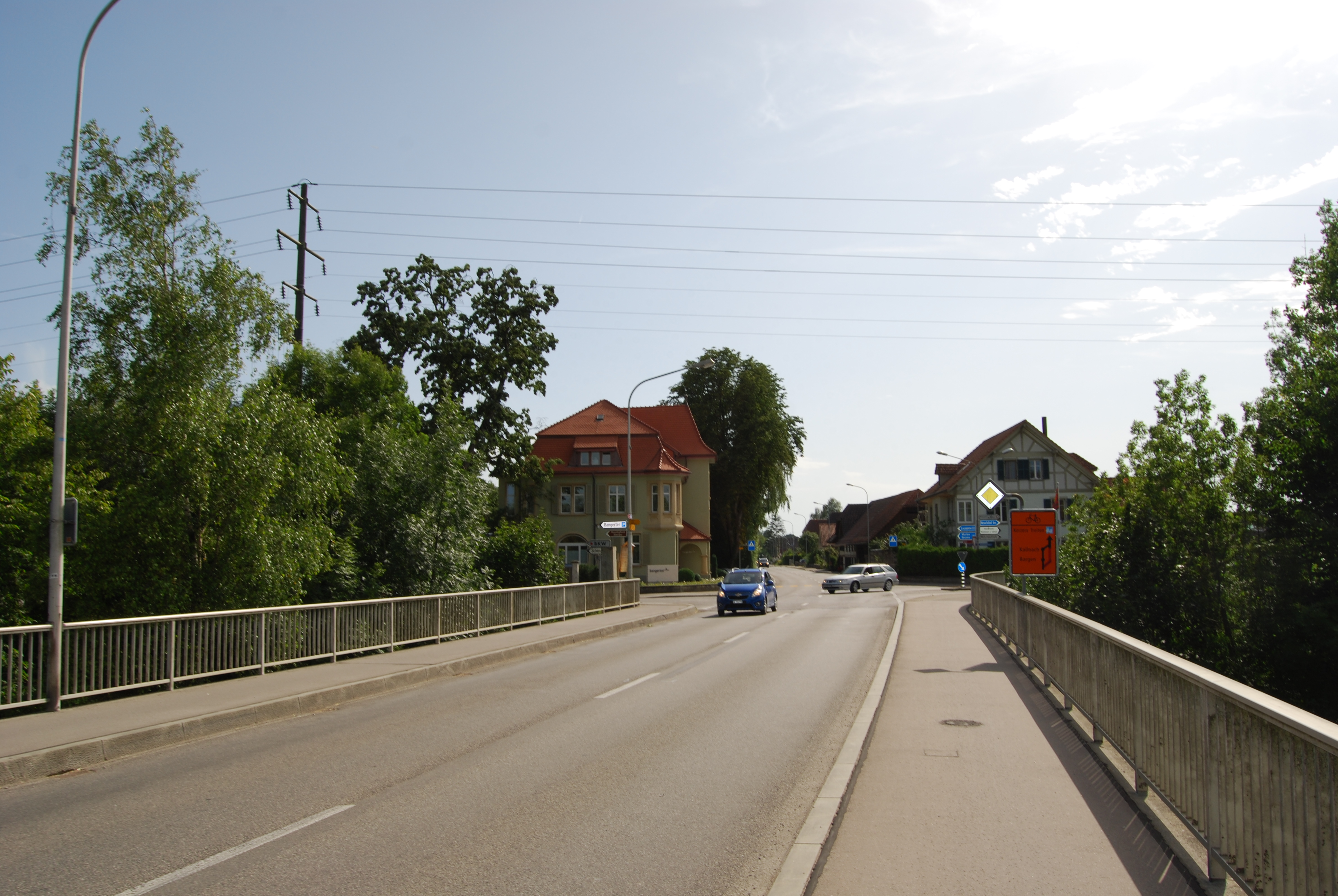 Bargen, canton of Bern, SwitzerlandEsperanto: Bargen, Kantono Berno, Svislando